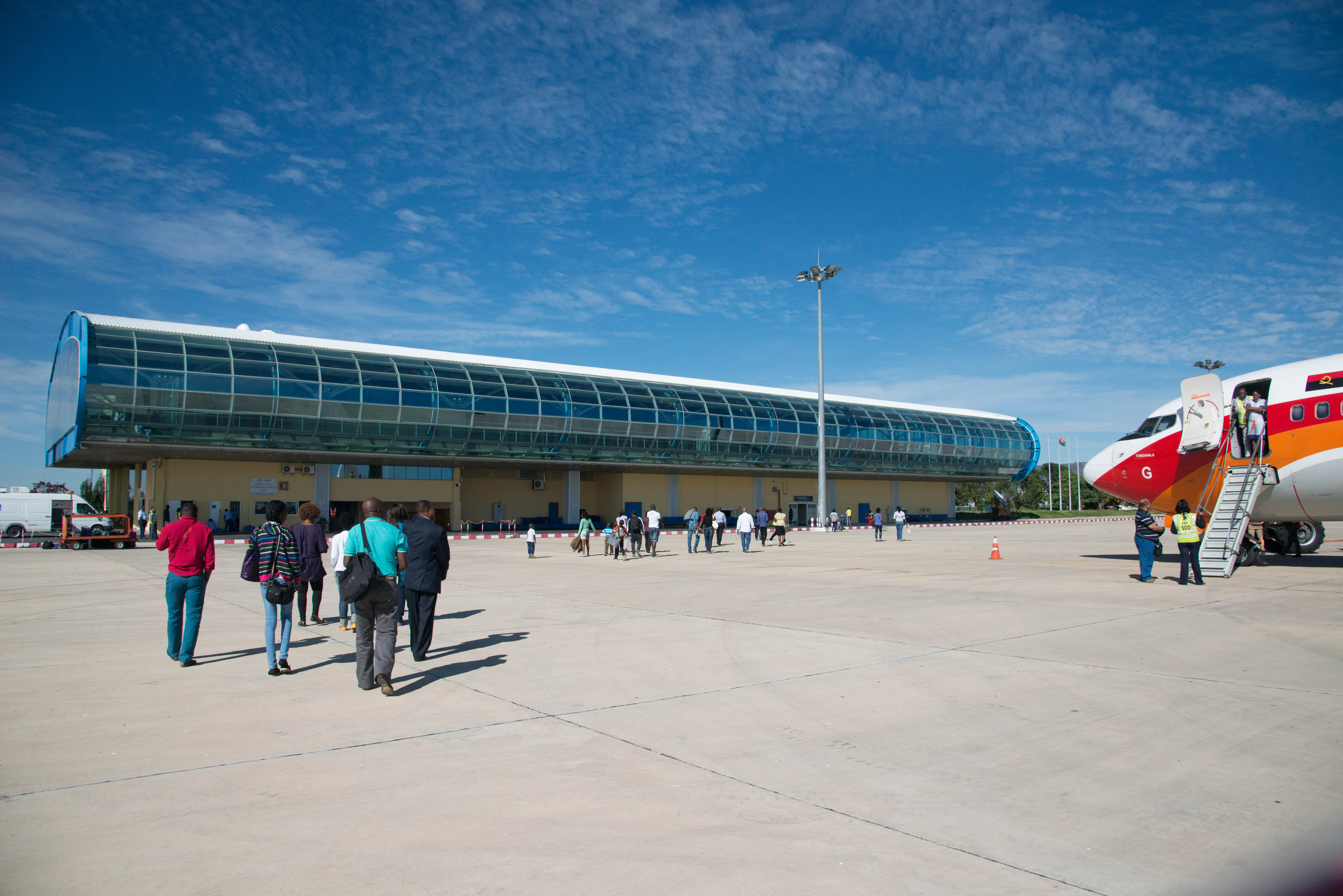 TAAG Angola Airlines Boeing 737-700 (D2-TBG) being refuelled at Lubango Airport